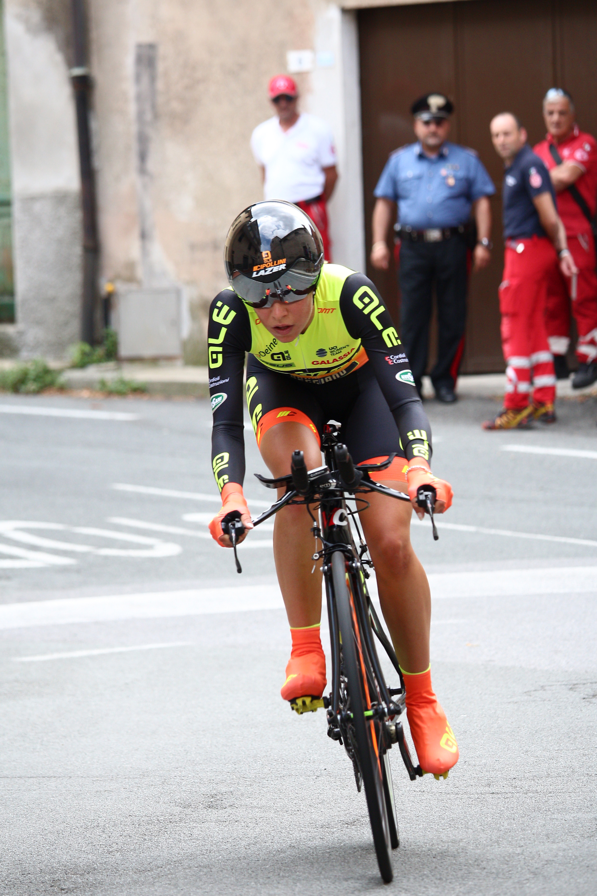 Dalia Muccioli during the 7th stage of Giro Rosa 2016 in Stella San Martino